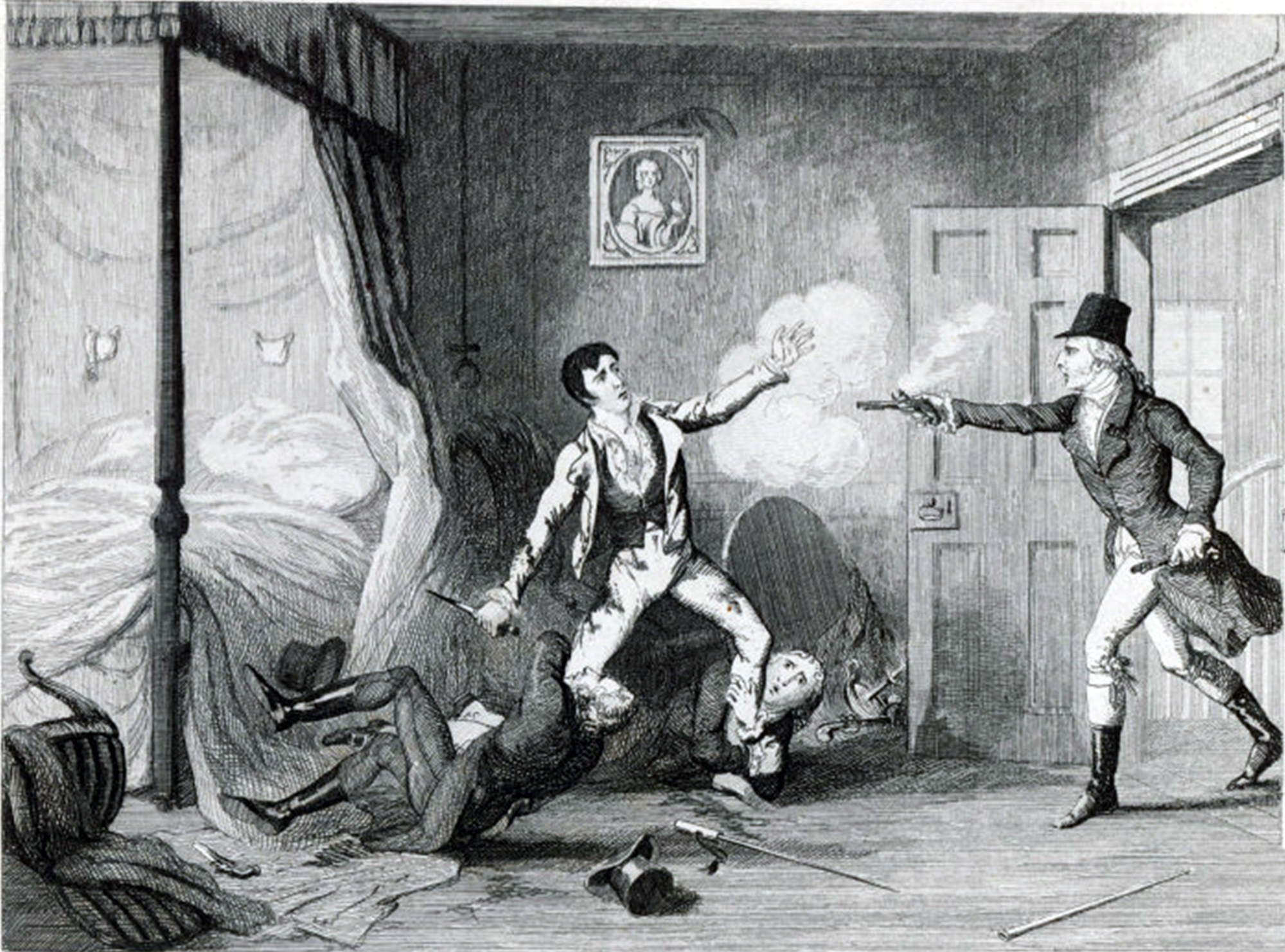 The Arrest of Lord Edward Fitzgerald